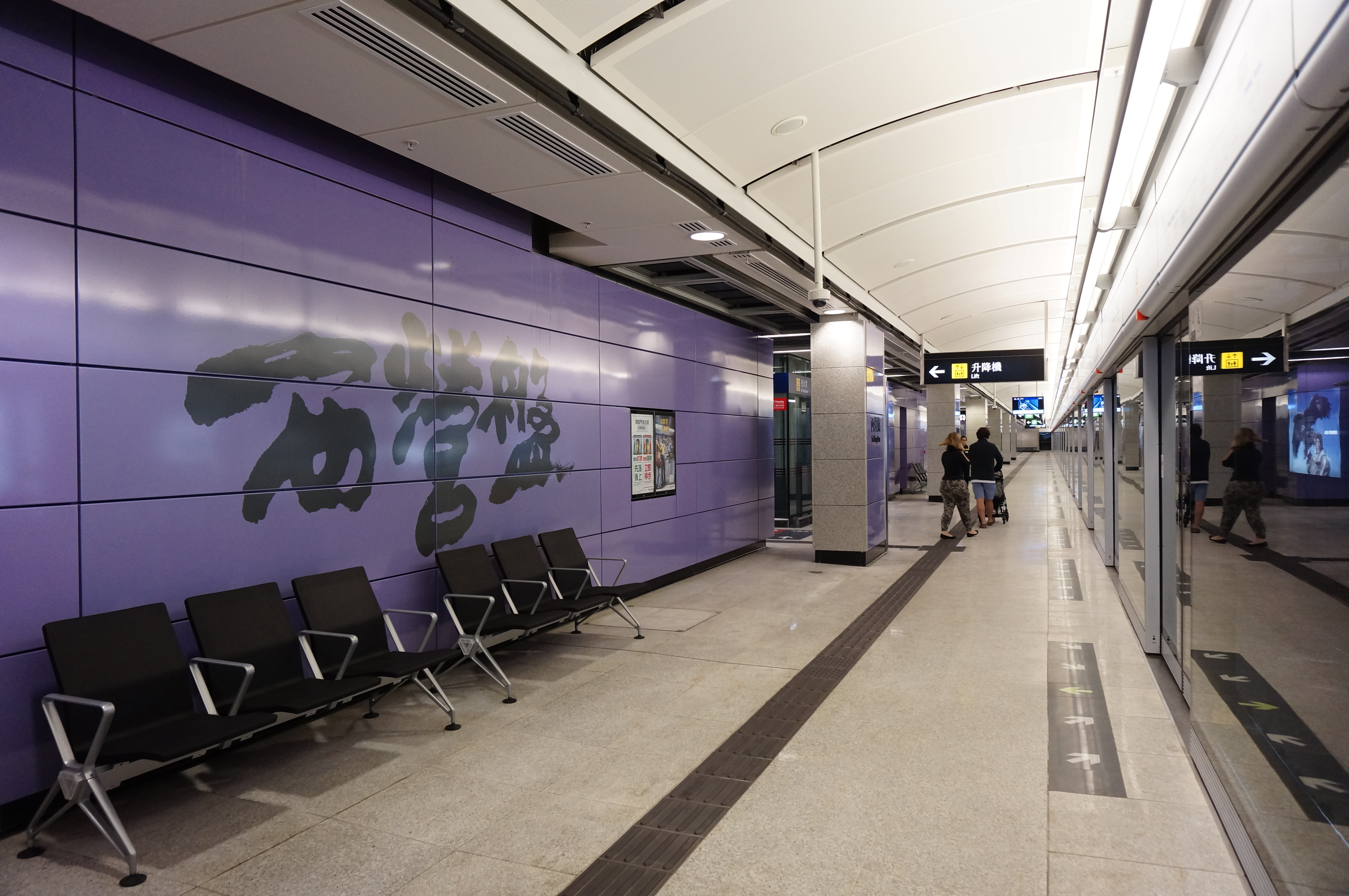 Sai Ying Pun Station